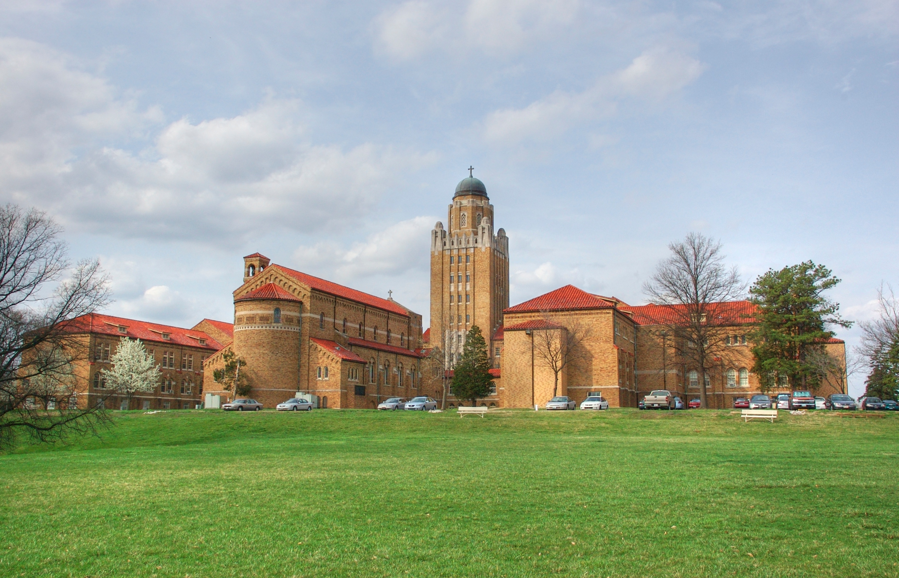 A view of Kenrick-Glennon Seminary from the Southeast corner of the property. It is the home of both the Kenrick School of Theology and the Cardinal Glennon College formation program, which both form men for the priesthood.